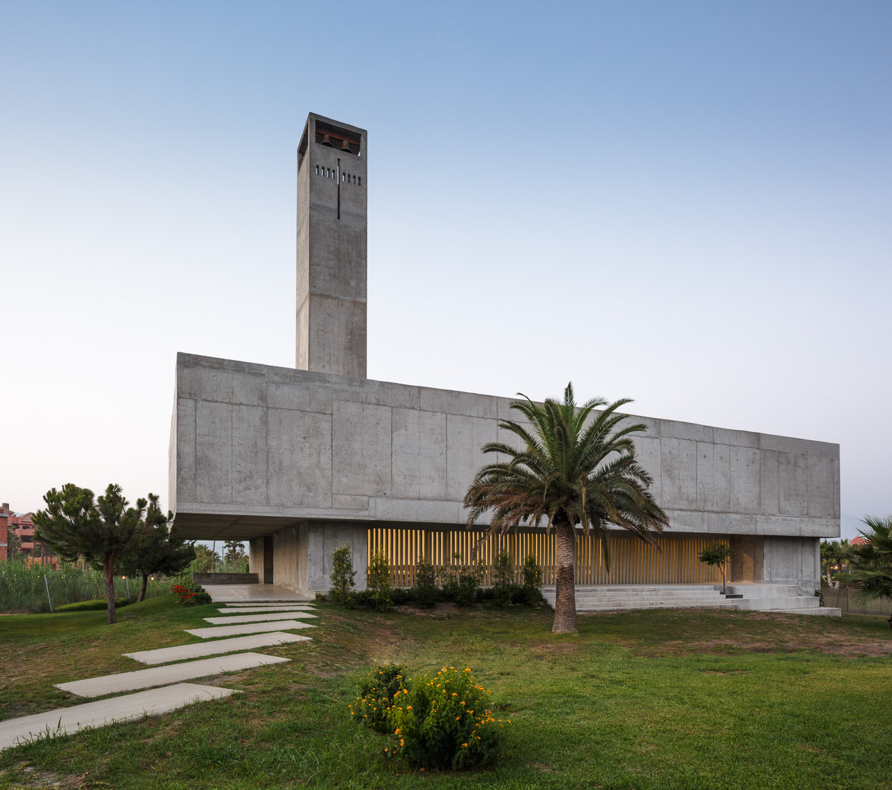 Church of Santa Josefina Bakhita in Playa Granada. Motril, Granada. Photography: Fernando Alda